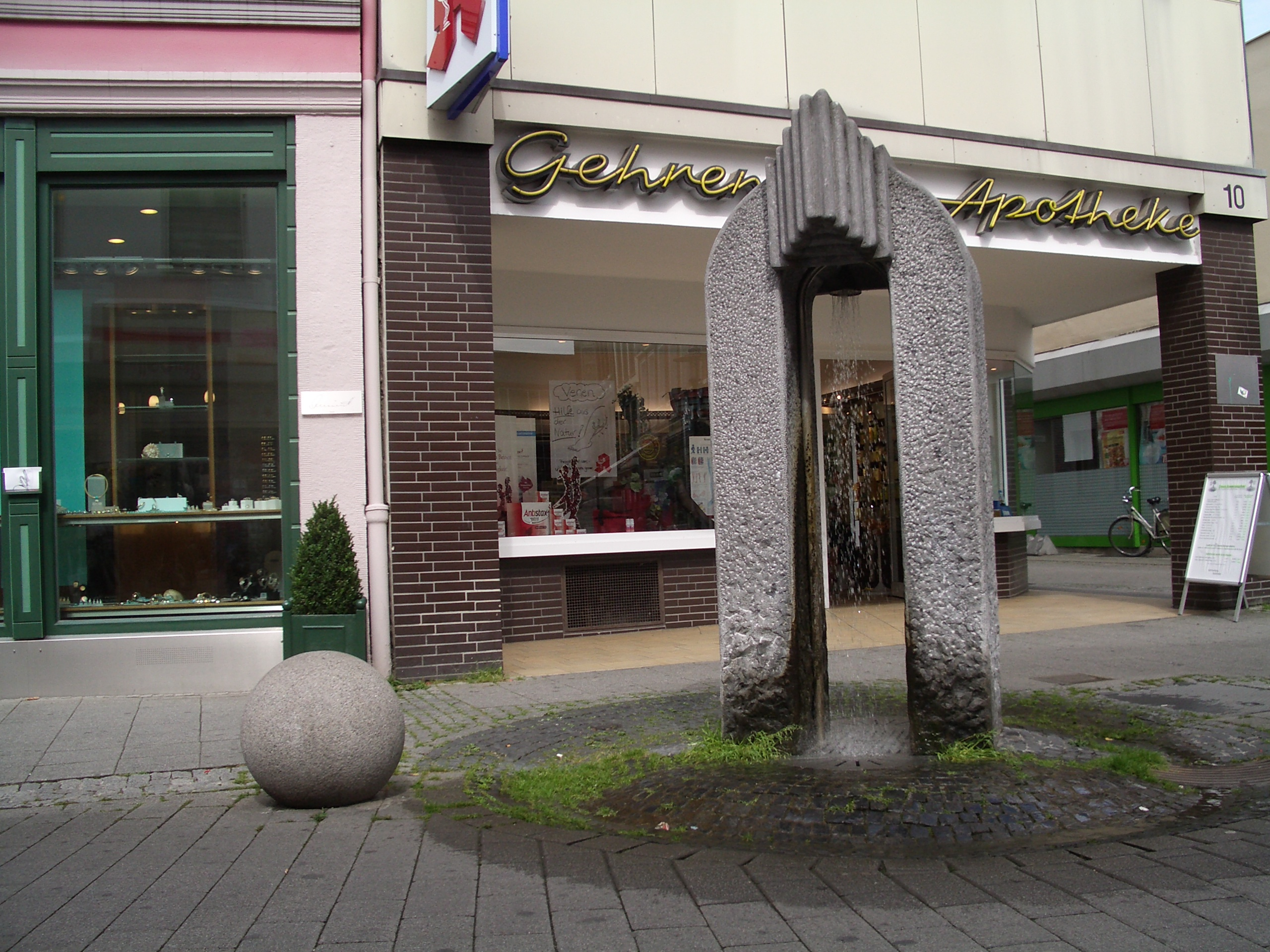 Fountain in town of Herford, District of Herford, North Rhine-Westphalia, Germany.